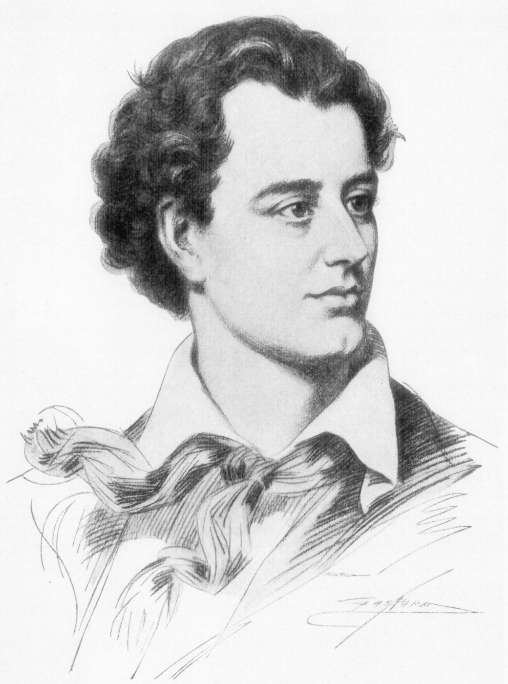 George Gordon Byron, 6th Baron Byron